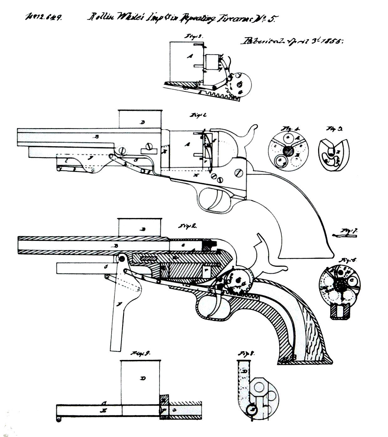 Rollin White Patent